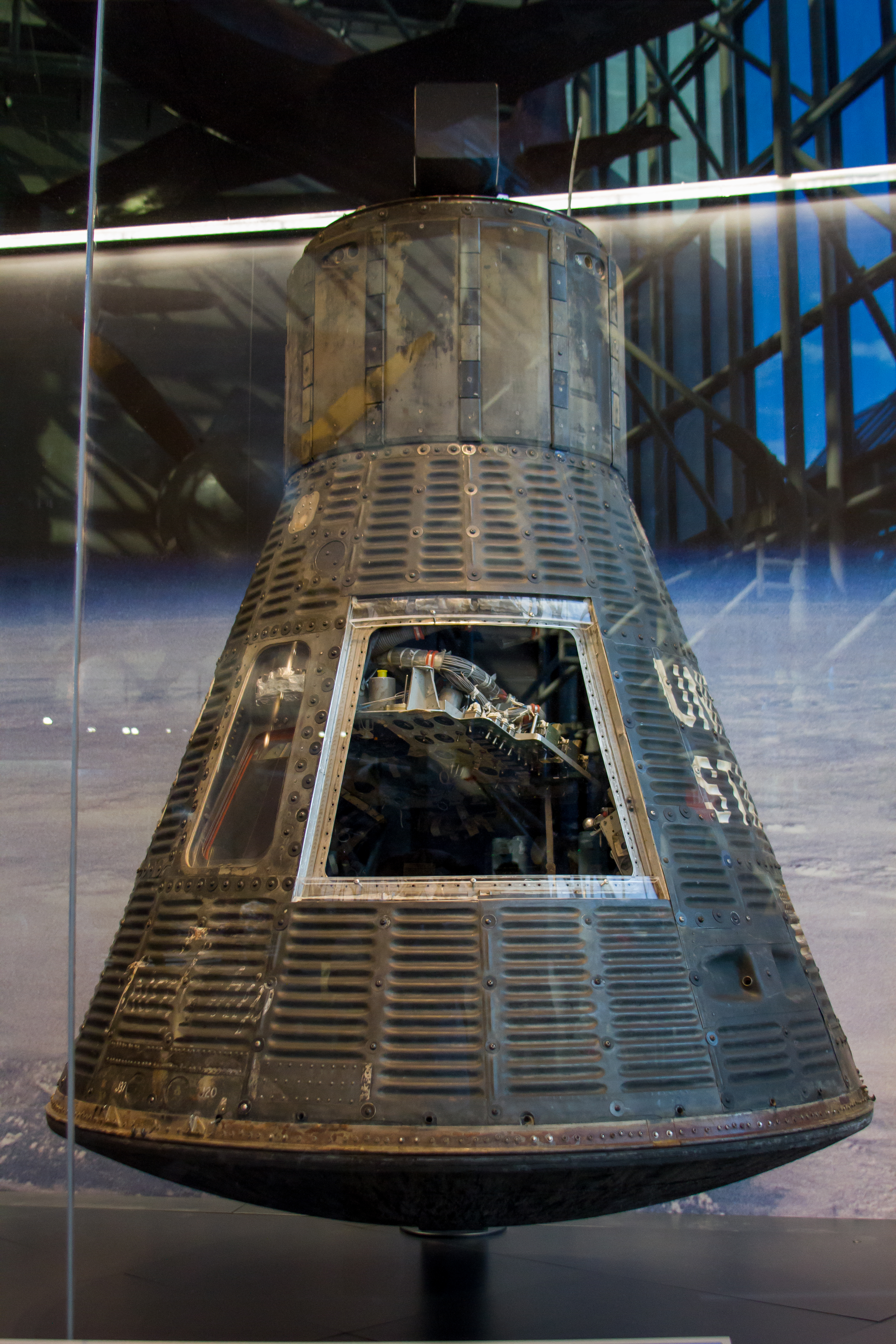 Mercury capsule Friendship 7 on display at the National Air & Space Museum.